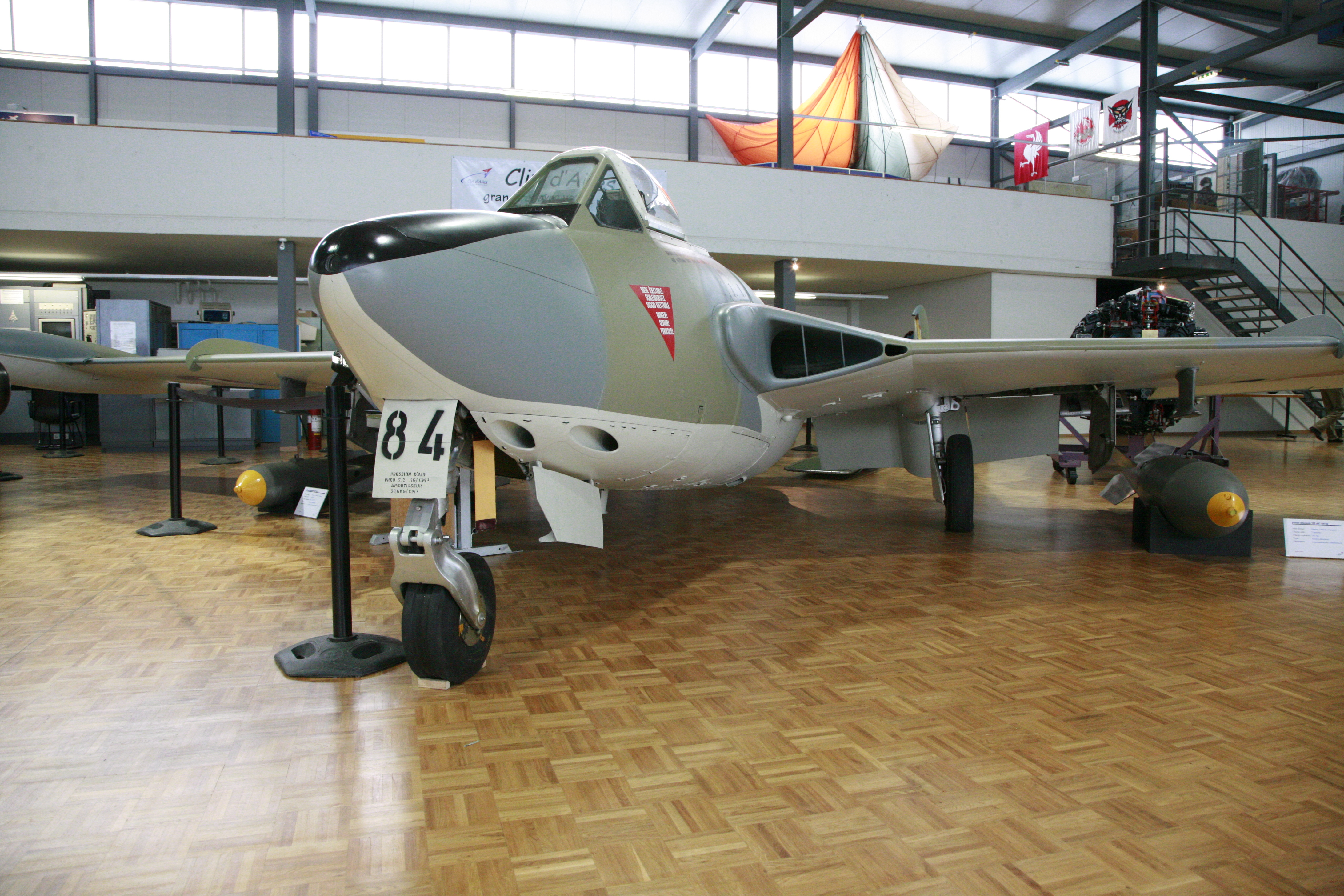 De Havilland Venom of the Swiss Air Force, on display at Payerne Airbase.